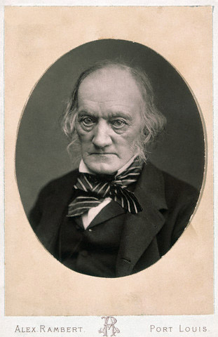 English anatomist, zoologist and palaeontologist Richard Owen, around 1880